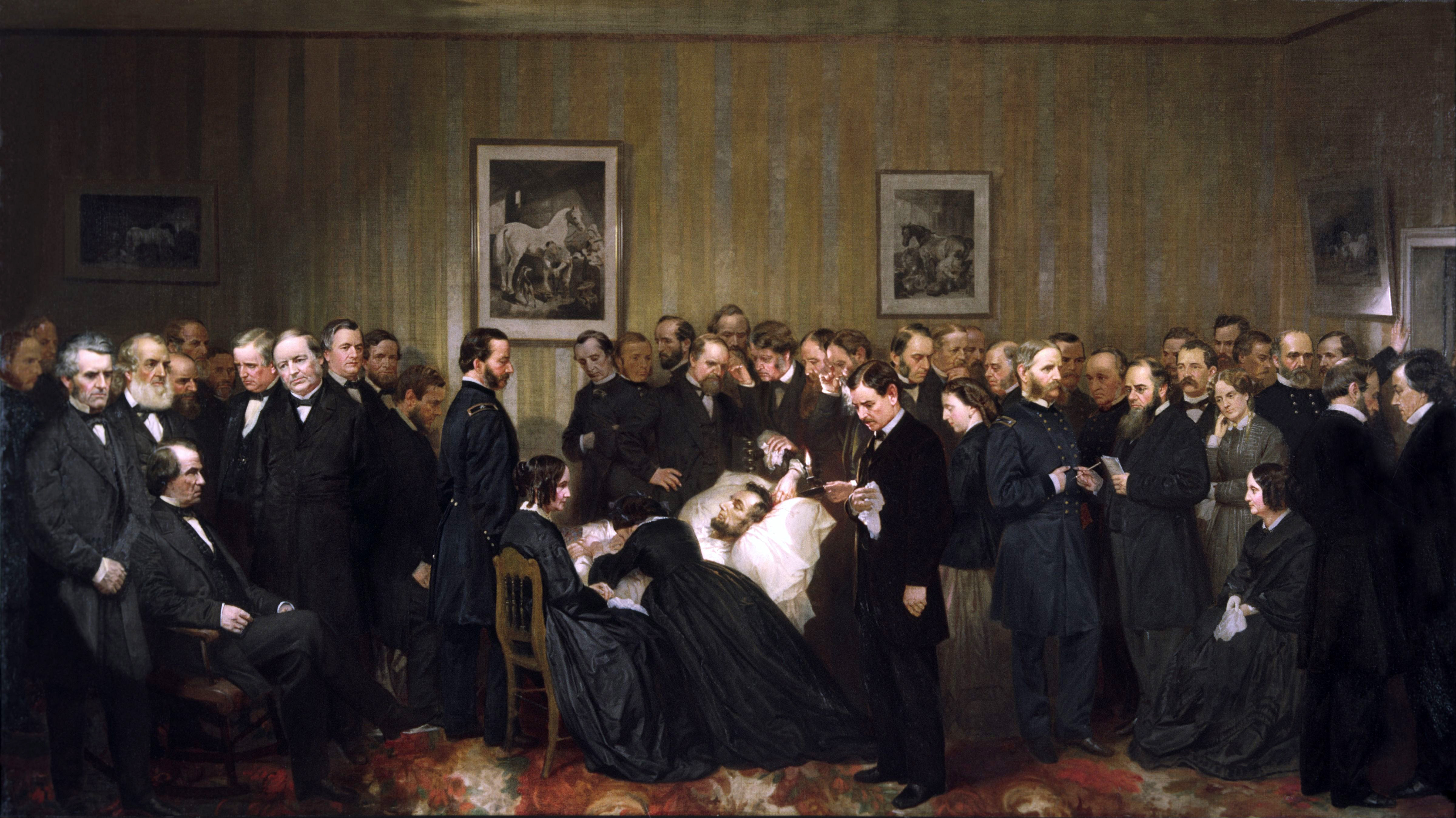 Designed by John B. Bachelder and painted by Alonzo Chappel, this work of art depicts those who visited the dying president throughout the night and early morning of April 14–15, 1865. These people did not visit Lincoln at the same time: they could not have all fit in the small first-floor room of the Petersen House. Lincoln’s wife, Mary, is pictured in the center, lying across the president’s body. His son Robert stands in the foreground to the right of the bed. Vice President Andrew Johnson is seated at the far left.